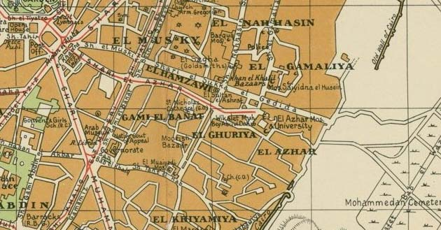 Historical map of the islamic Cairo. Quarters of Musky and Al-Azhar